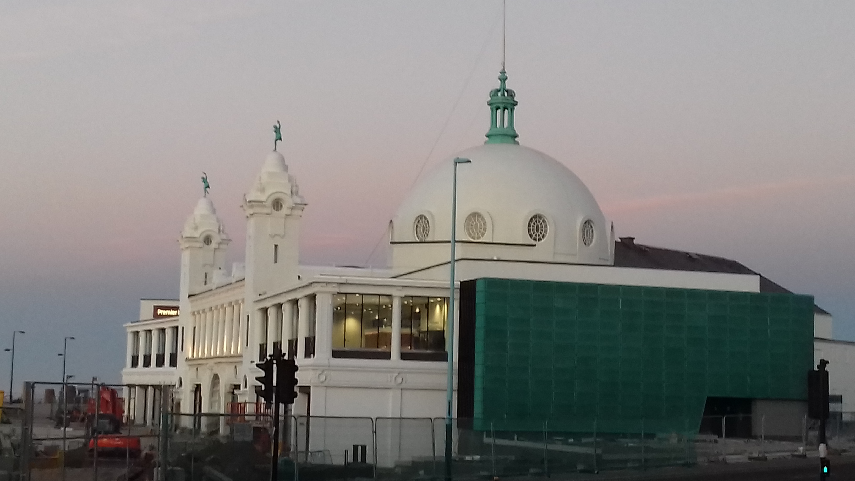 Renovation work at an advanced stage, Spanish City, Whitley Bay, Tyne and Wear, England, June 2018